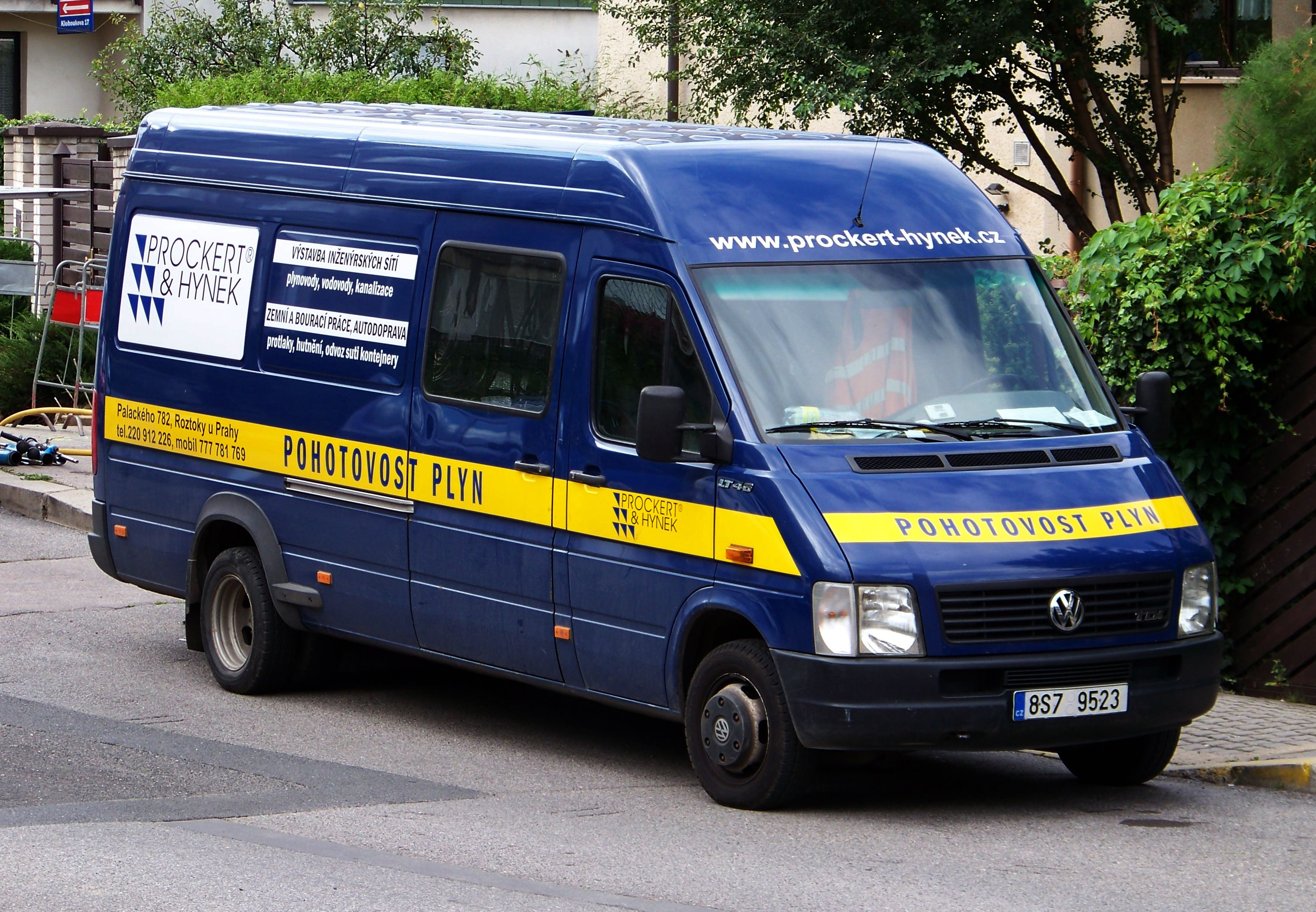 Prague-Chodov, the Czech Republic. Roztyly, Kloboukova street, gas pipelines emergency vehicle.